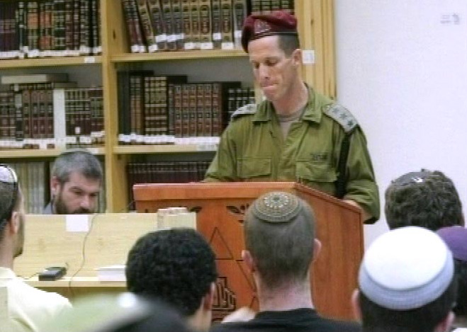 August 17, 2005. Residents of Atzmona hold a ceremony for the closing of the pre-military preparatory program in the town. The ceremony was attended by OC Southern Command at the time, Maj. Gen. Dan Harel. The evacuation of Atzmona pictured took place as part of the Gaza Disengagement in the summer of 2005.